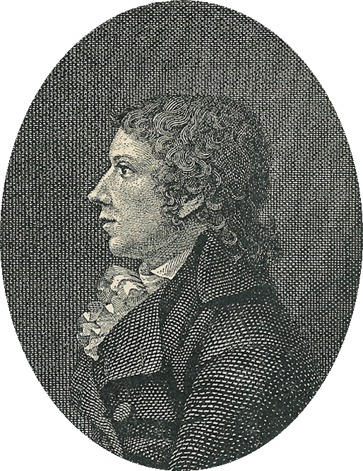 Jens Baggesen (1764 - 1826), Danish poet. Kobberstik af Jens Baggesen (1764 - 1826). Tegnet og stukket af Lahde.